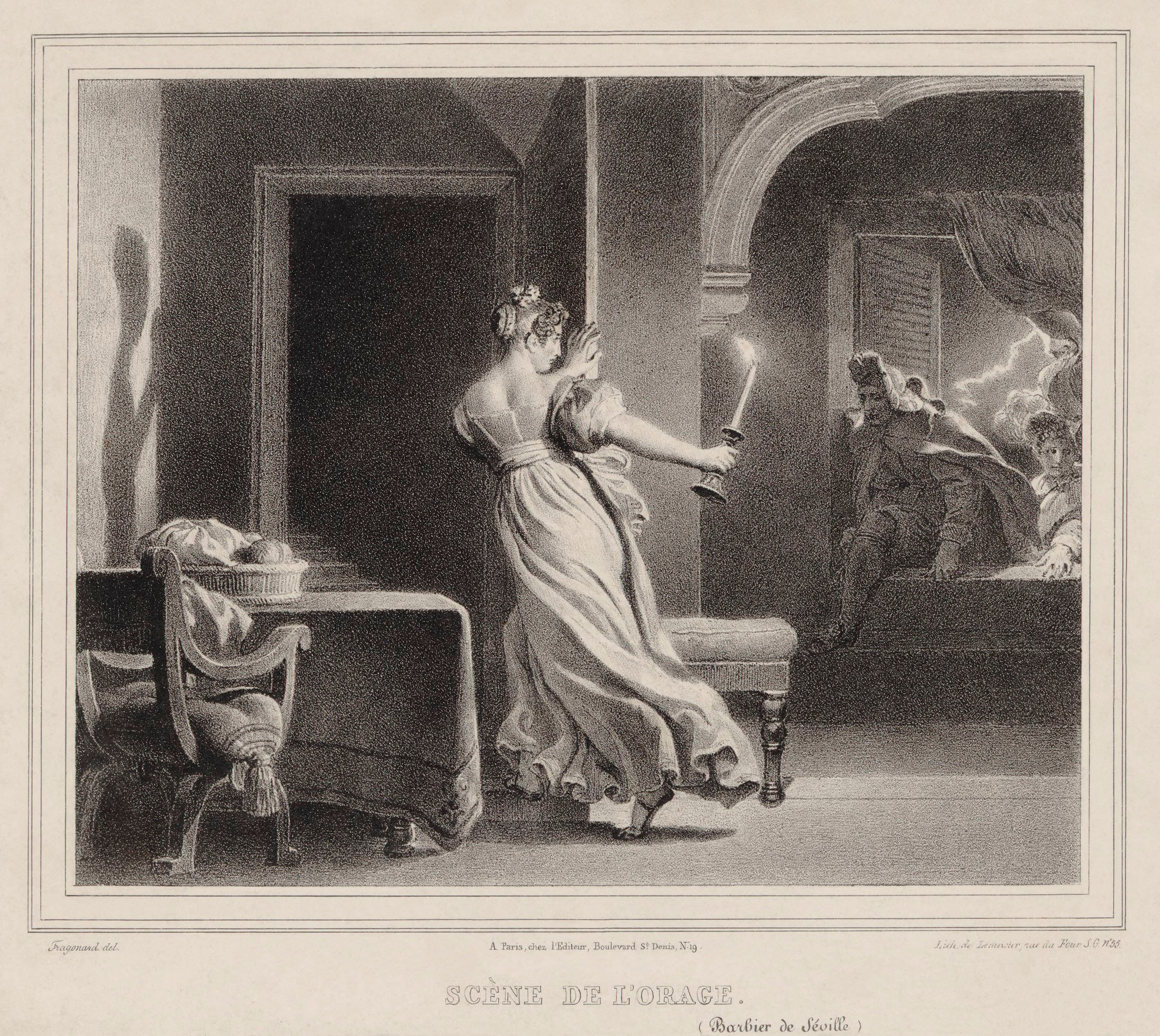 Storm scene from near the end of Gioachino Rossini's The Barber of Seville.